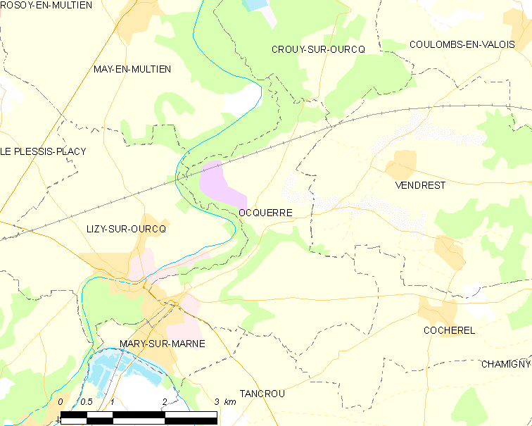 Map of French municipality Ocquerre